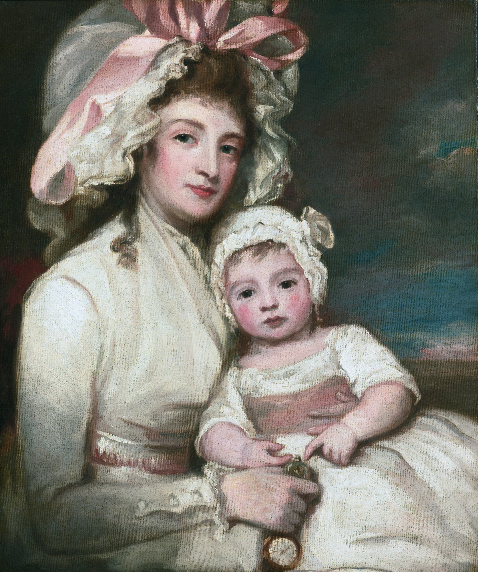 Mrs. Henry Ainslie with her child oil on canvas 76.2 x 63.5 cm